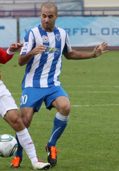 Marc Crosas with FC Volga Nizhny Novgorod in 2011.